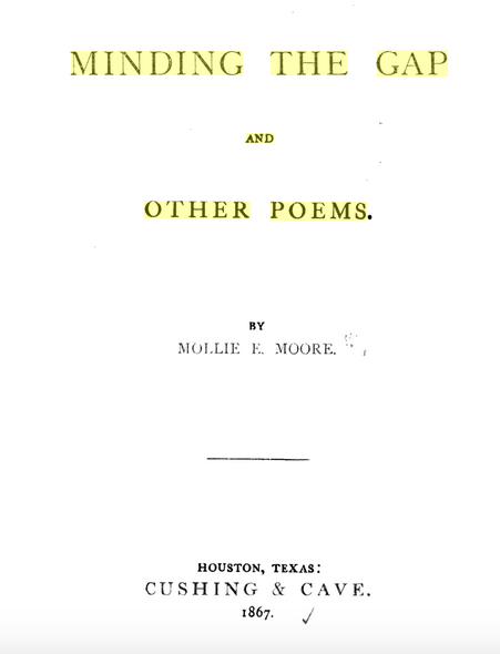 Minding the Gap: And Other Poems, By Mollie Evelyn Moore Davis